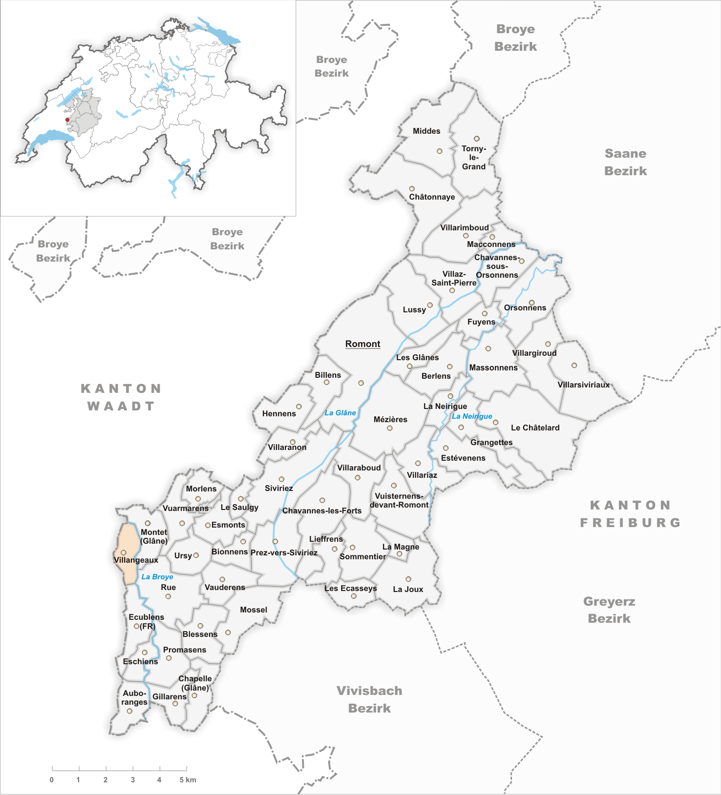 Municipality Villangeaux Artist: Tschubby